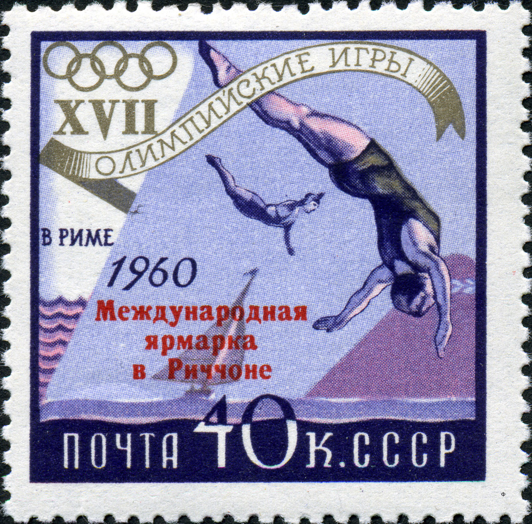 1960 USSR postage stamp, overprinted 'International fair in Riccione'. CPA # 2461.